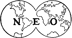 The file is created from the logo as it is found on the cover of The Rapid Method of Neo